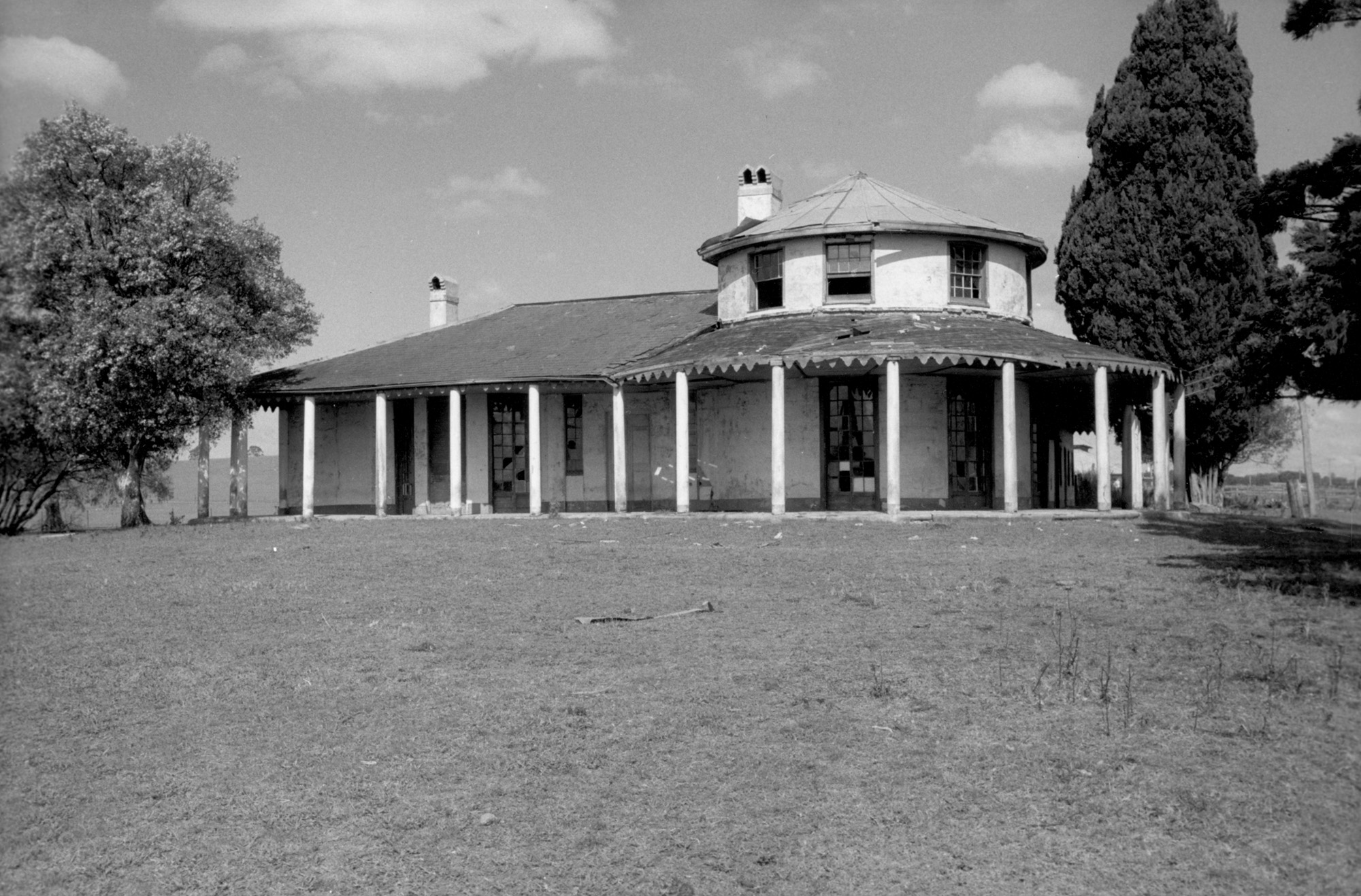 The homestead Bungarribee was built in New South Wales, Australia for Scottish-born settler John Campbell (1770-1827). Now demolished, it was situated on Doonside Road, about 10 miles beyond Parramatta. The house was recently completed before Campbell's death in October 1827, with the tower and round room added by Thomas Icely in 1829-30, following his purchase of the estate in late 1828. (Historic Houses Trust, from details provided by JWSM)